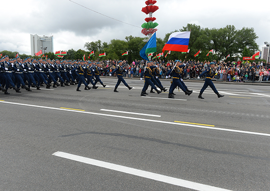 Руководство ВДВ России и Вооруженных сил Белоруссии обсудили в Минске совместную подготовку военнослужащих